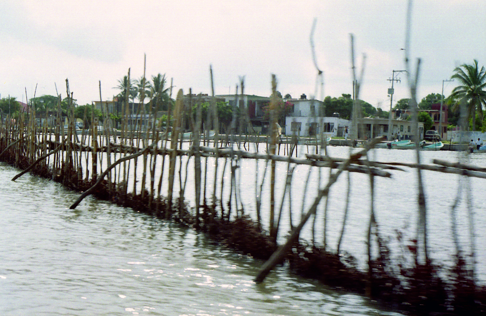 Crab stands on the shore of Tamiahua, Mexico, north of Tuxpan, in Veracruz state, Mexico